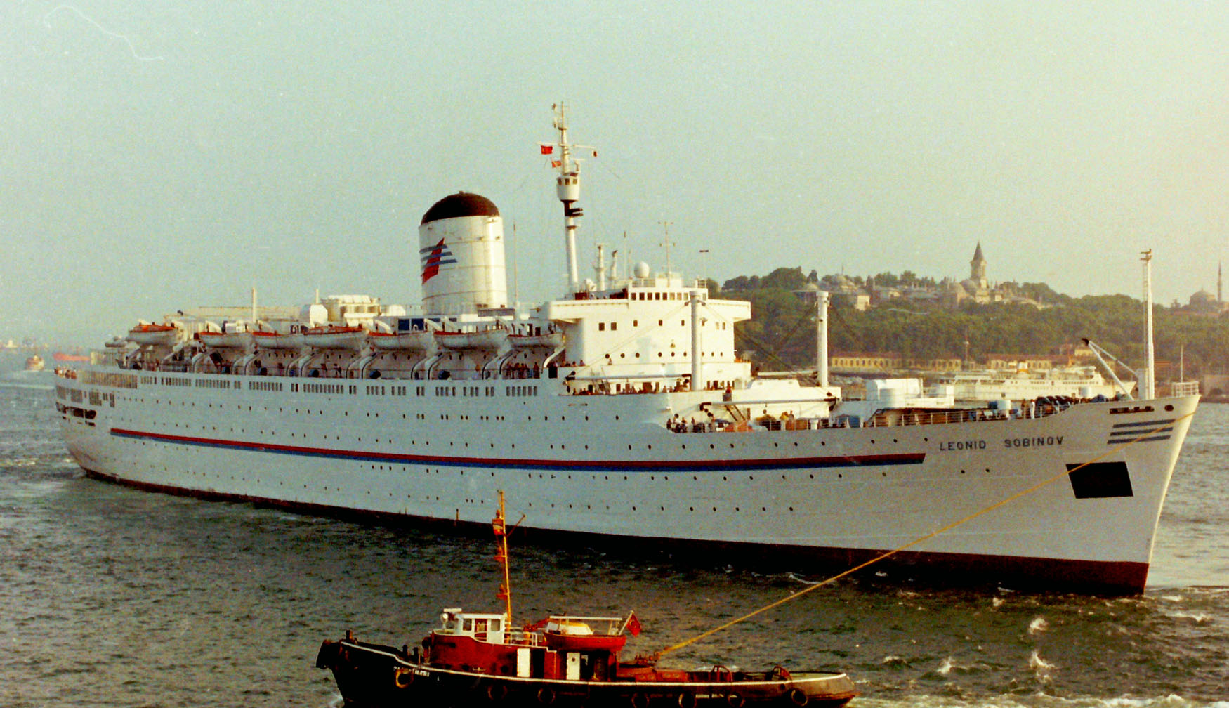 The cruise ship Leonid Sobinov arrives in Istanbul harbor on August 1, 1992.